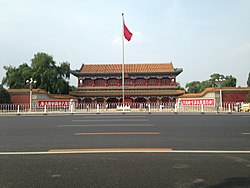 This is Zhongnanhai.